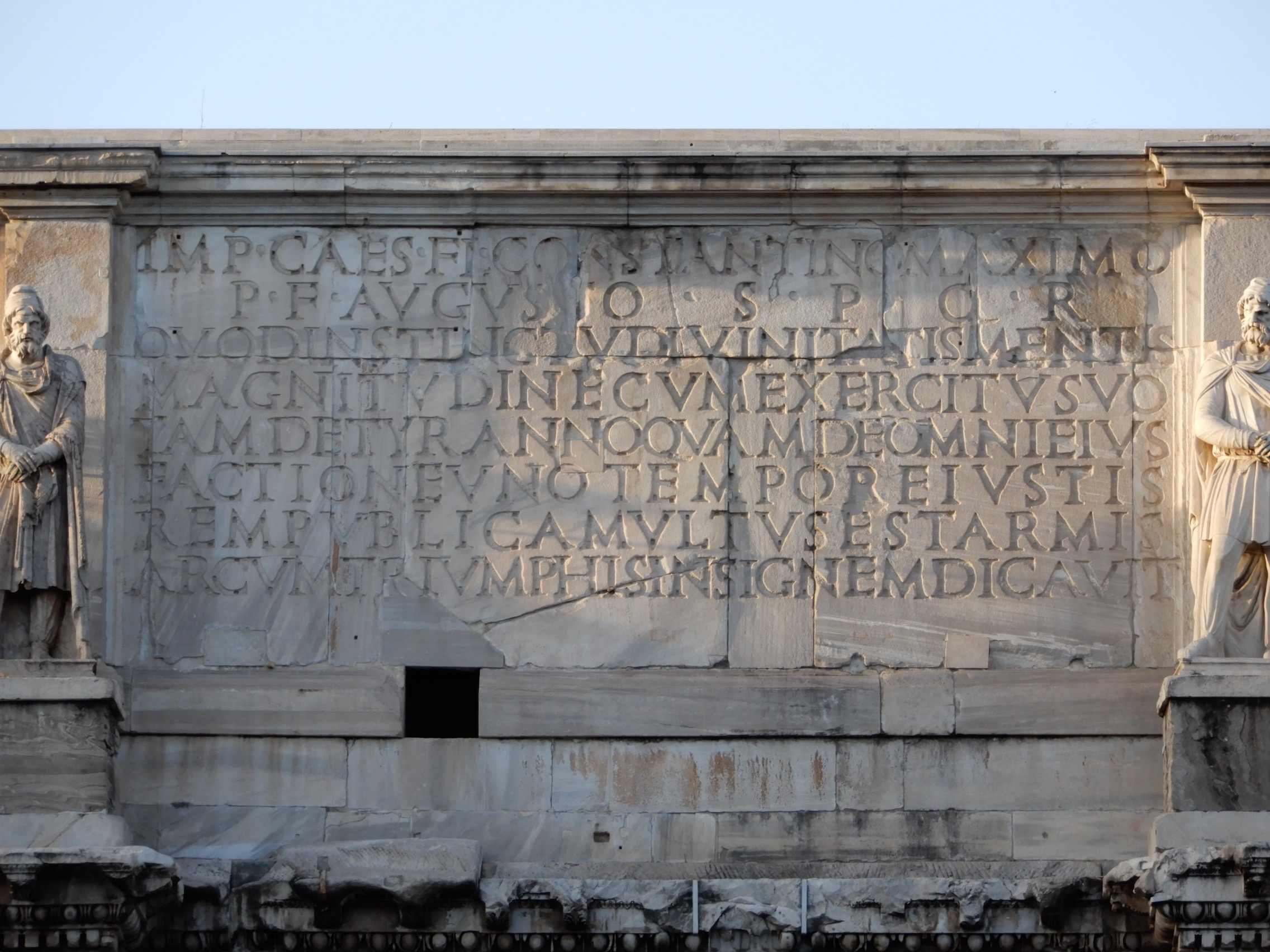 Rome, Arch of Constantine, south side, inscription